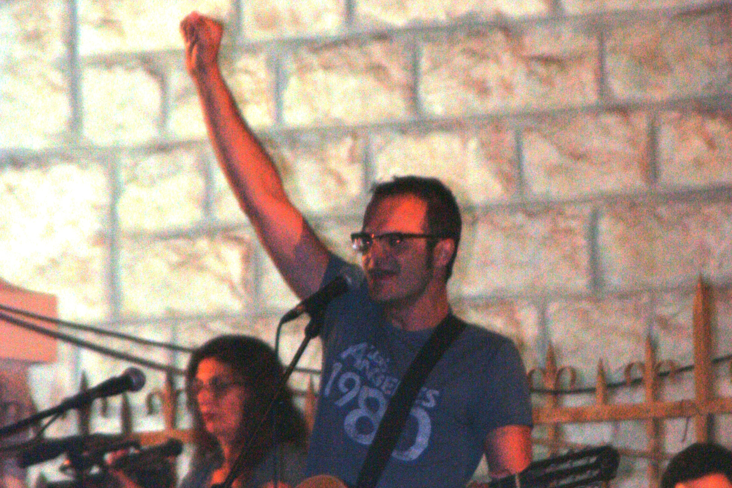 Avraham Tal performing at the July 30 rally of the 2011 Israeli housing protest, Jerusalem